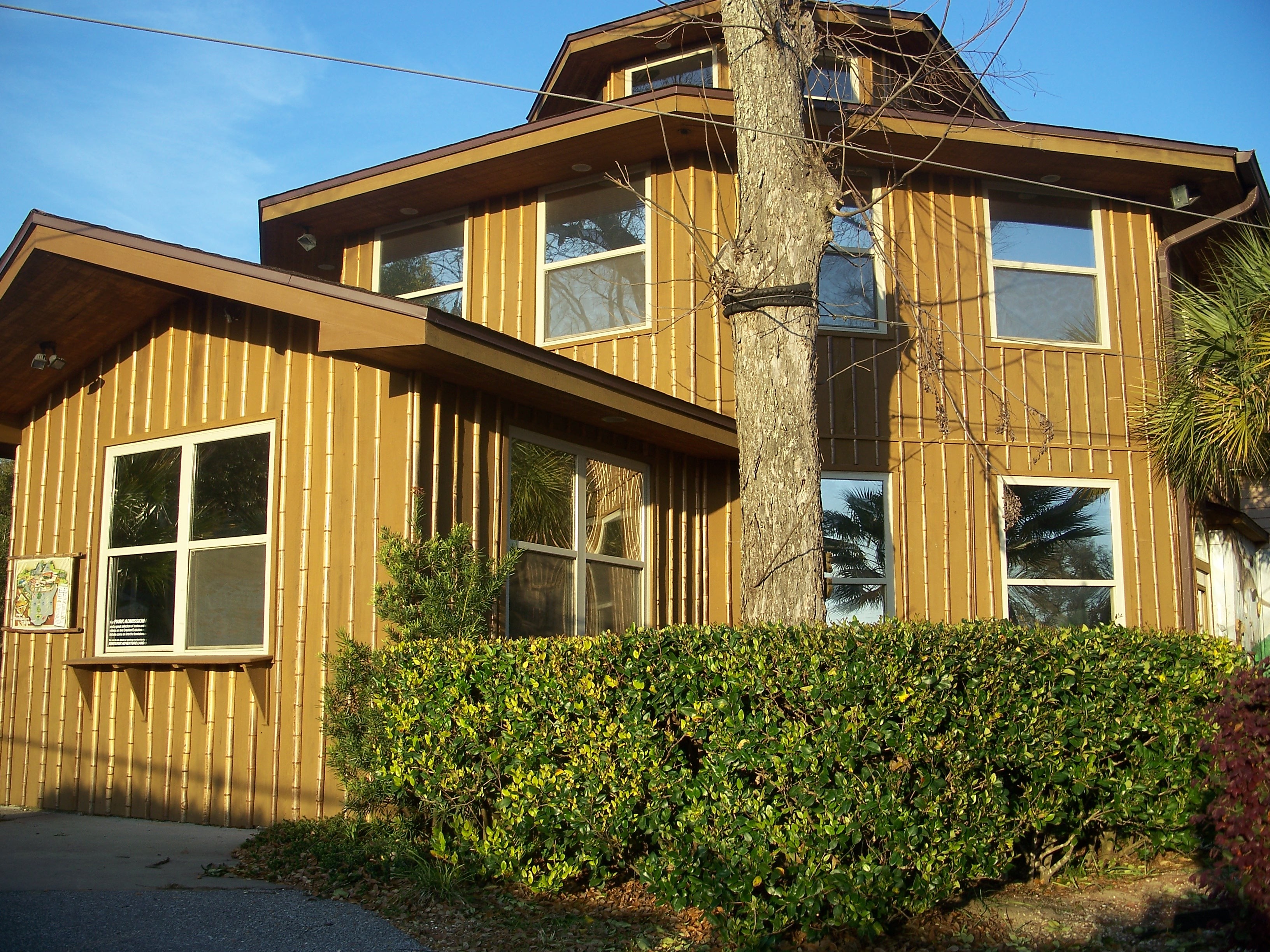 Building in Dinosaur Adventure Land in Pensacola, Florida.